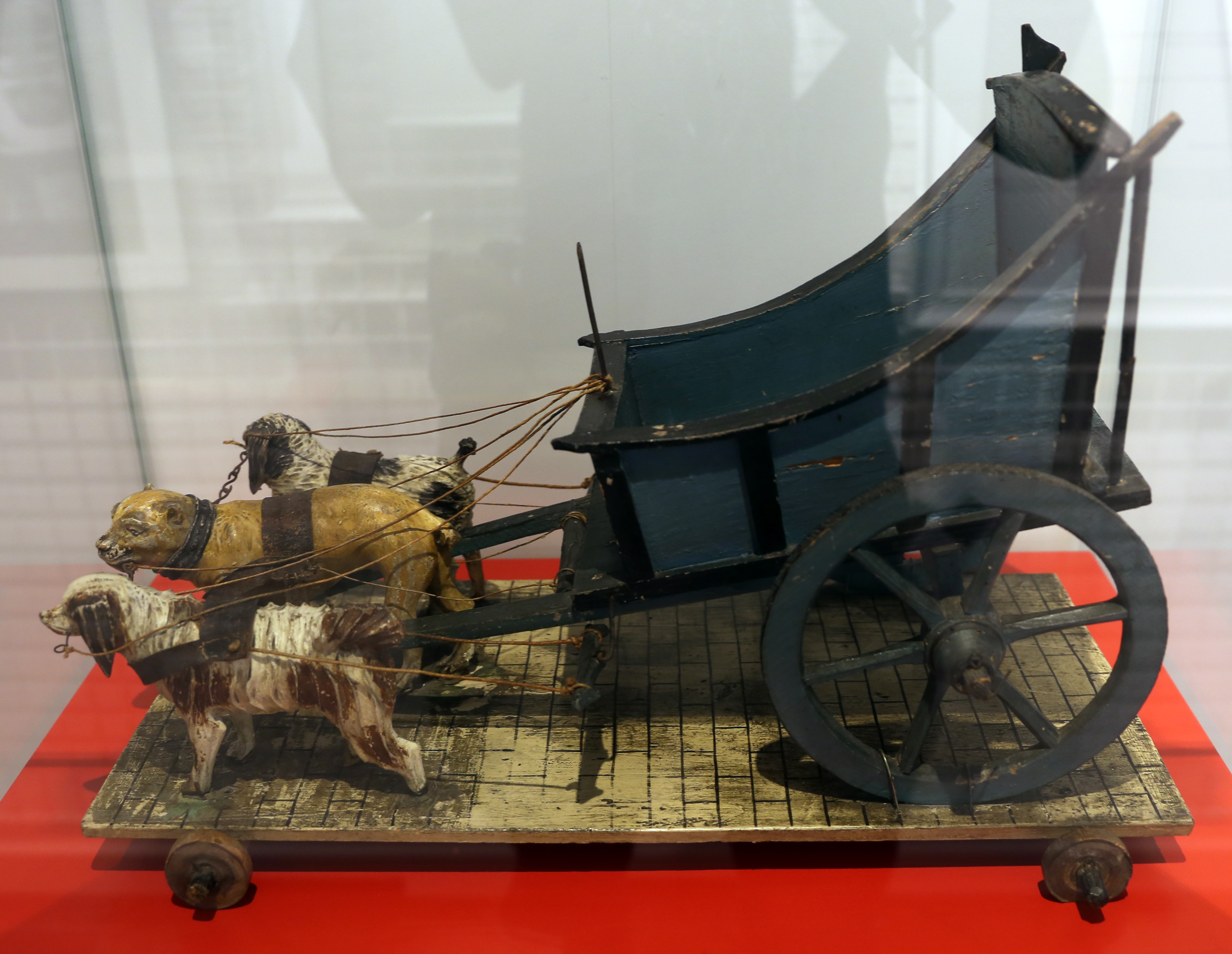 Wooden dog cart, Waddinxveen, 1790-1845, Museum Gouda